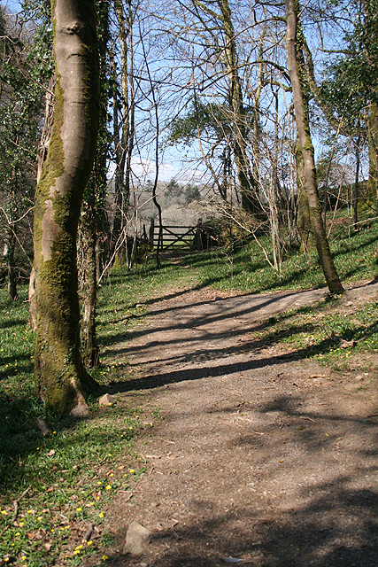 Whitchurch: Drake’s Trail 2 A bend in a wood on a new section of National Cycle Route 27, from Plymouth to Ilfracombe, opened in October 2007, which links Bedford Bridge, Horrabridge, to Grenofen Bridge, Whitchurch